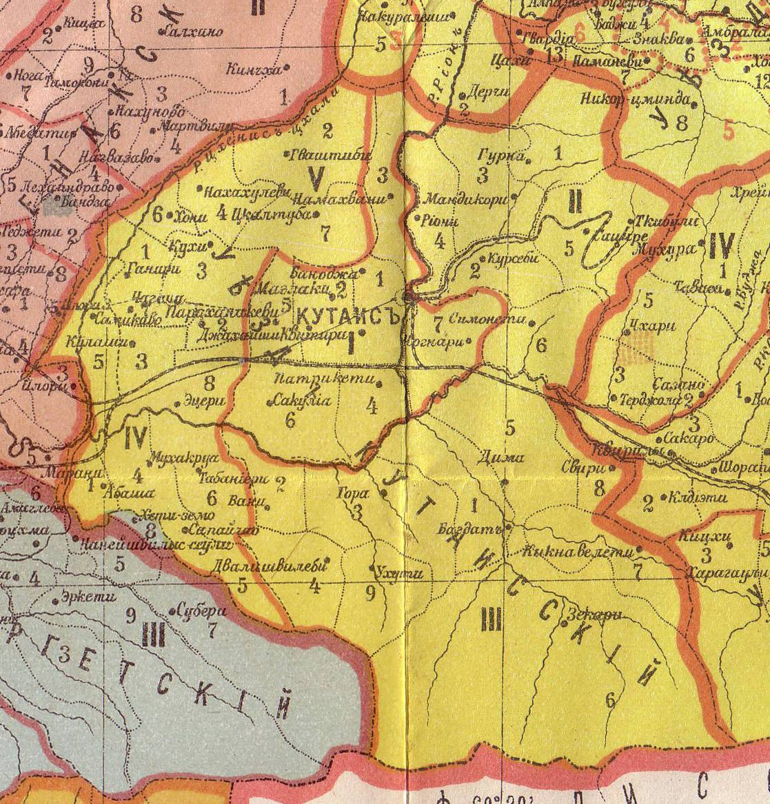 Ethnographic map of the Kutais Governorate